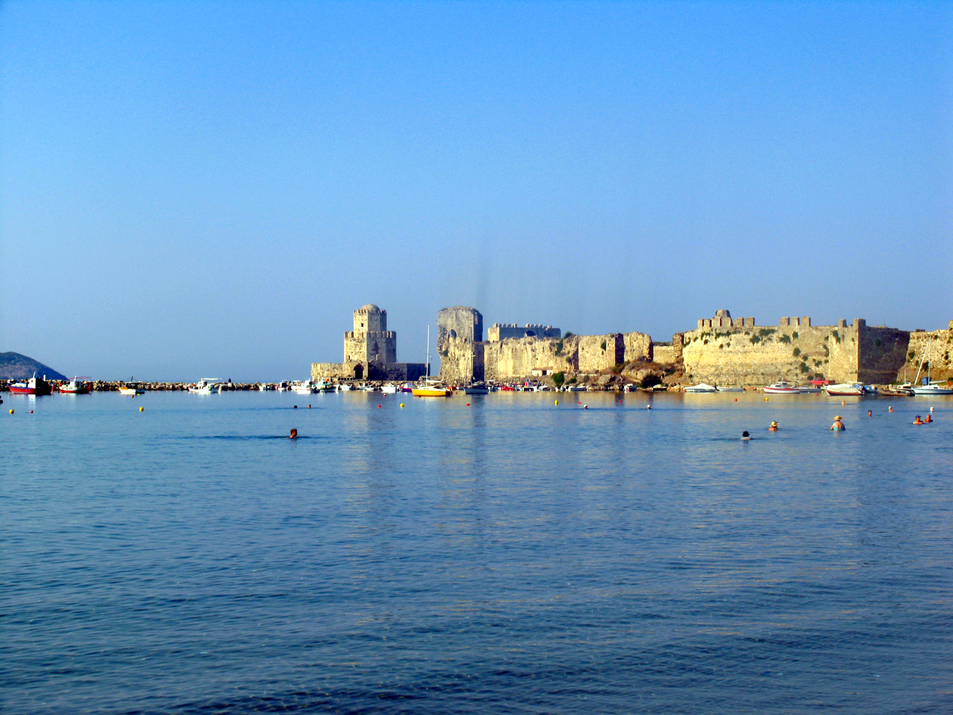 Methoni, Messinia, Greece. Venetian fortress.